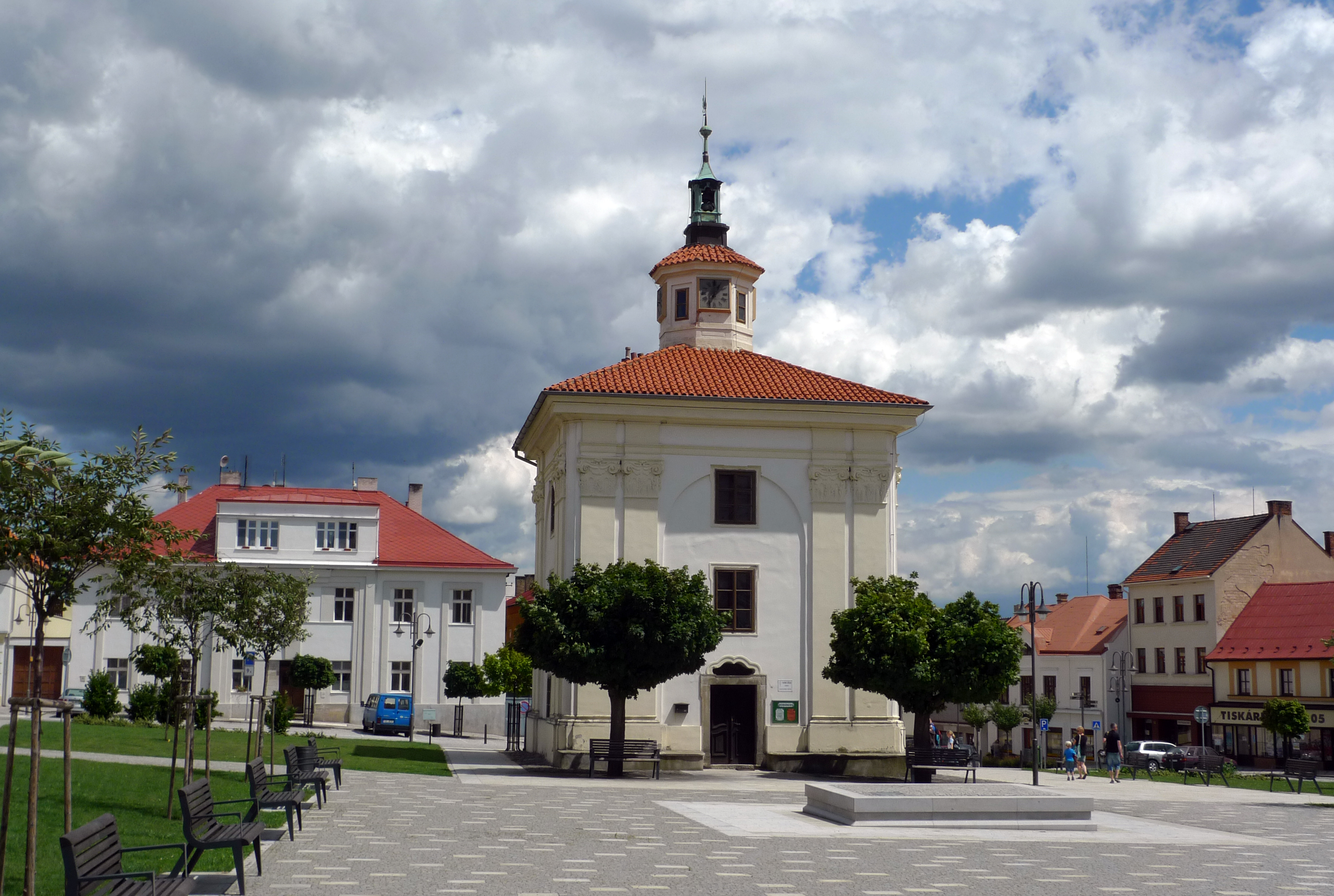 Benátky nad Jizerou - Husovo square, Czech Republic